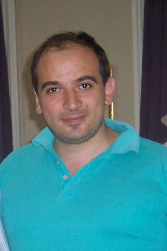 Luigi Miraglia, photo taken Aug. 6, 2005 in Lexinton, Kentucky, United States of America by Usor:Iustinus.